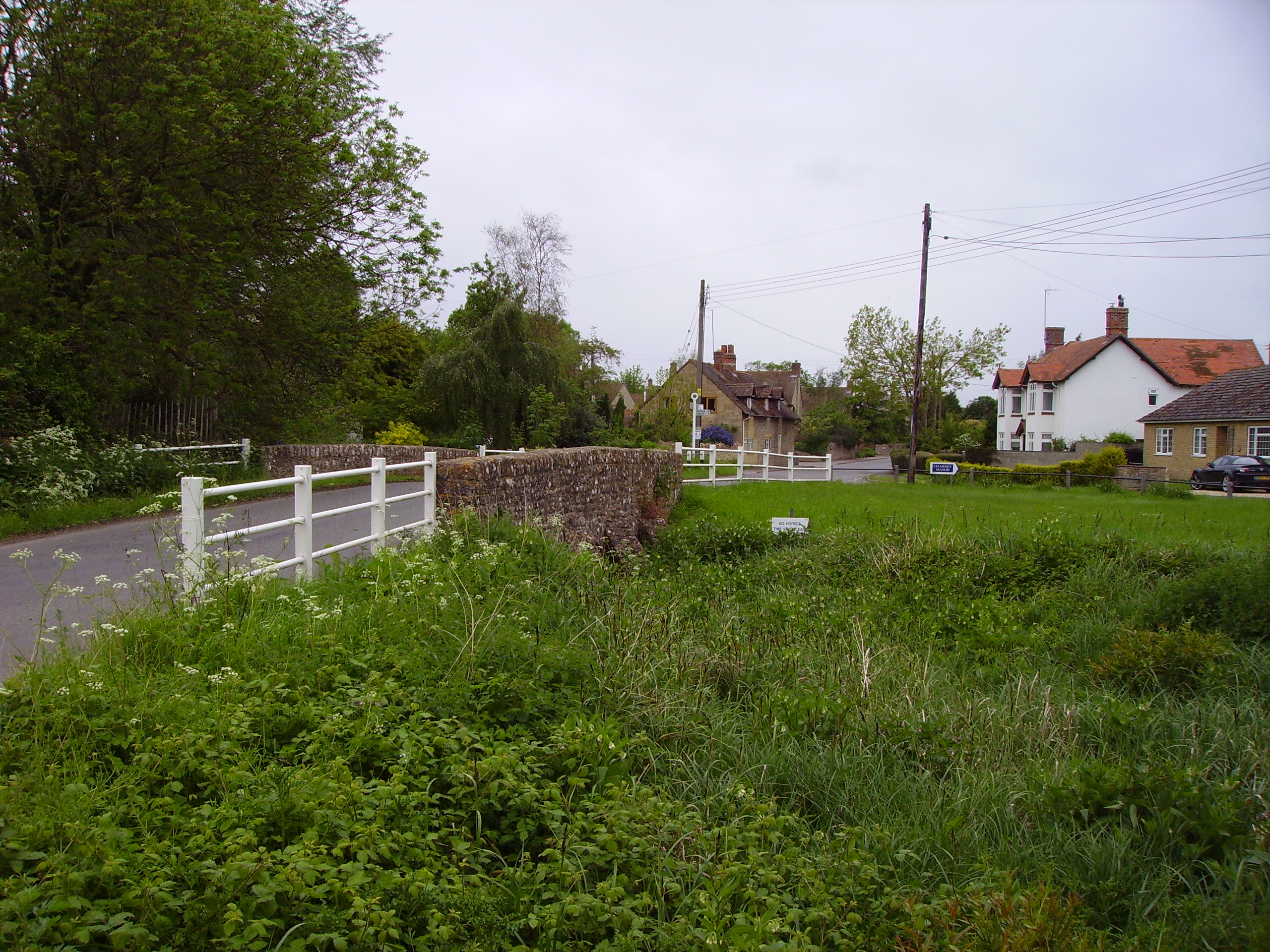 Charney Bassett, Berkshire